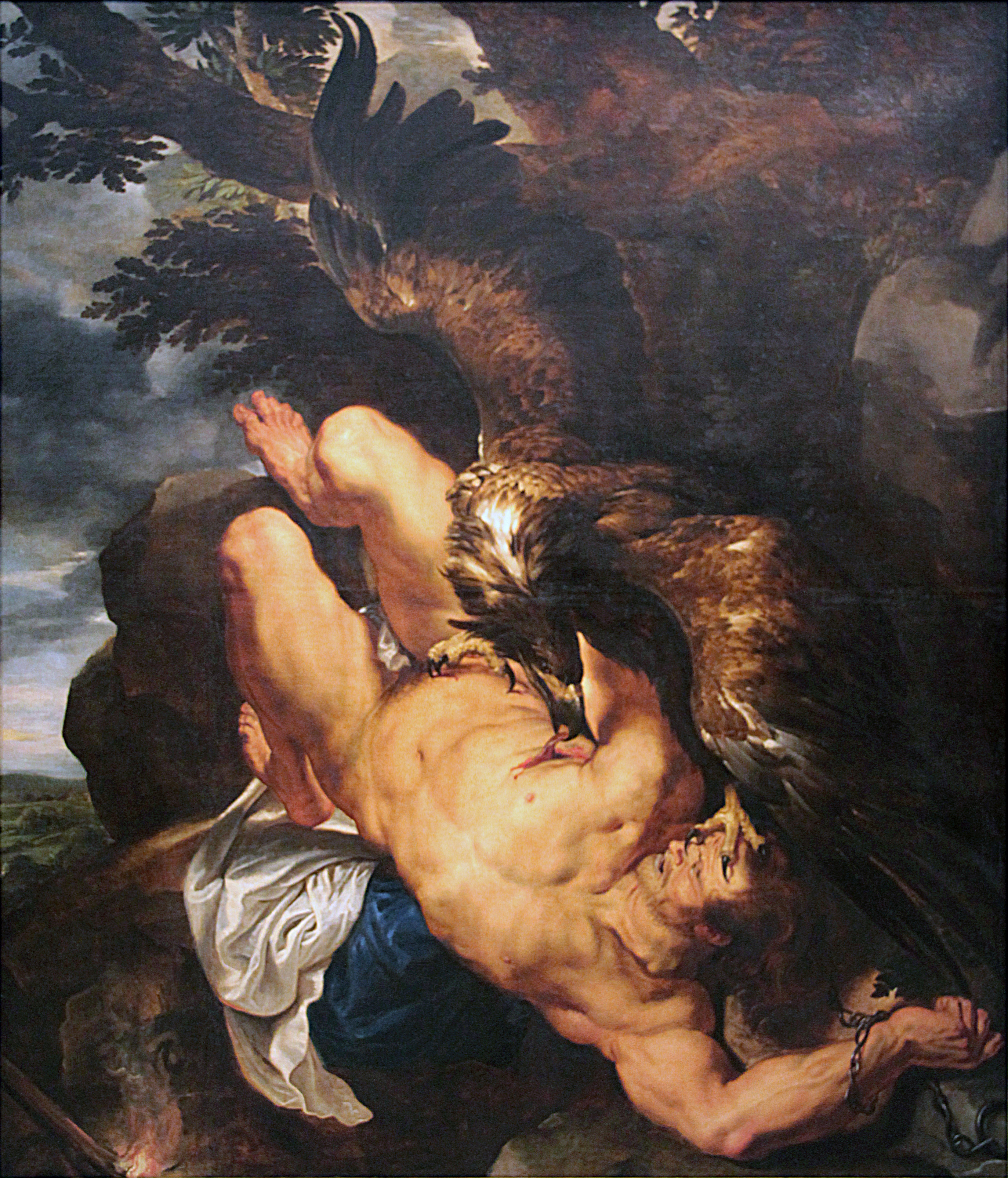 Oil on canvas paid by the Philadelphia Museum of Art, photographed during the exhibition " Rubens et son Temps " (Rubens and His Time) in the Louvre-Lens Museum.